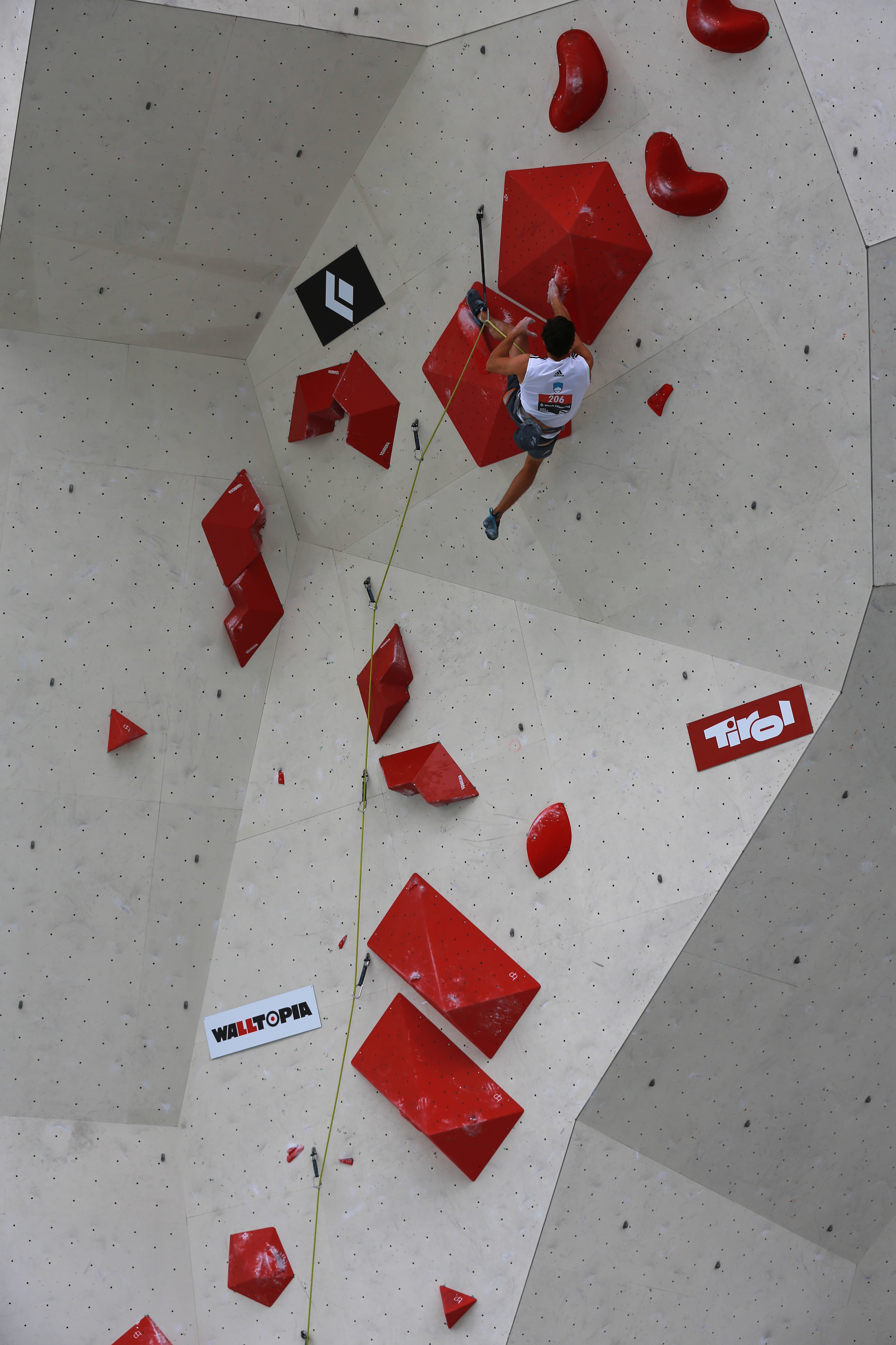 IFSC Climbing World Championships Innsbruck 2018 Qualification MEN lead 206 BERGANT Martin SLO